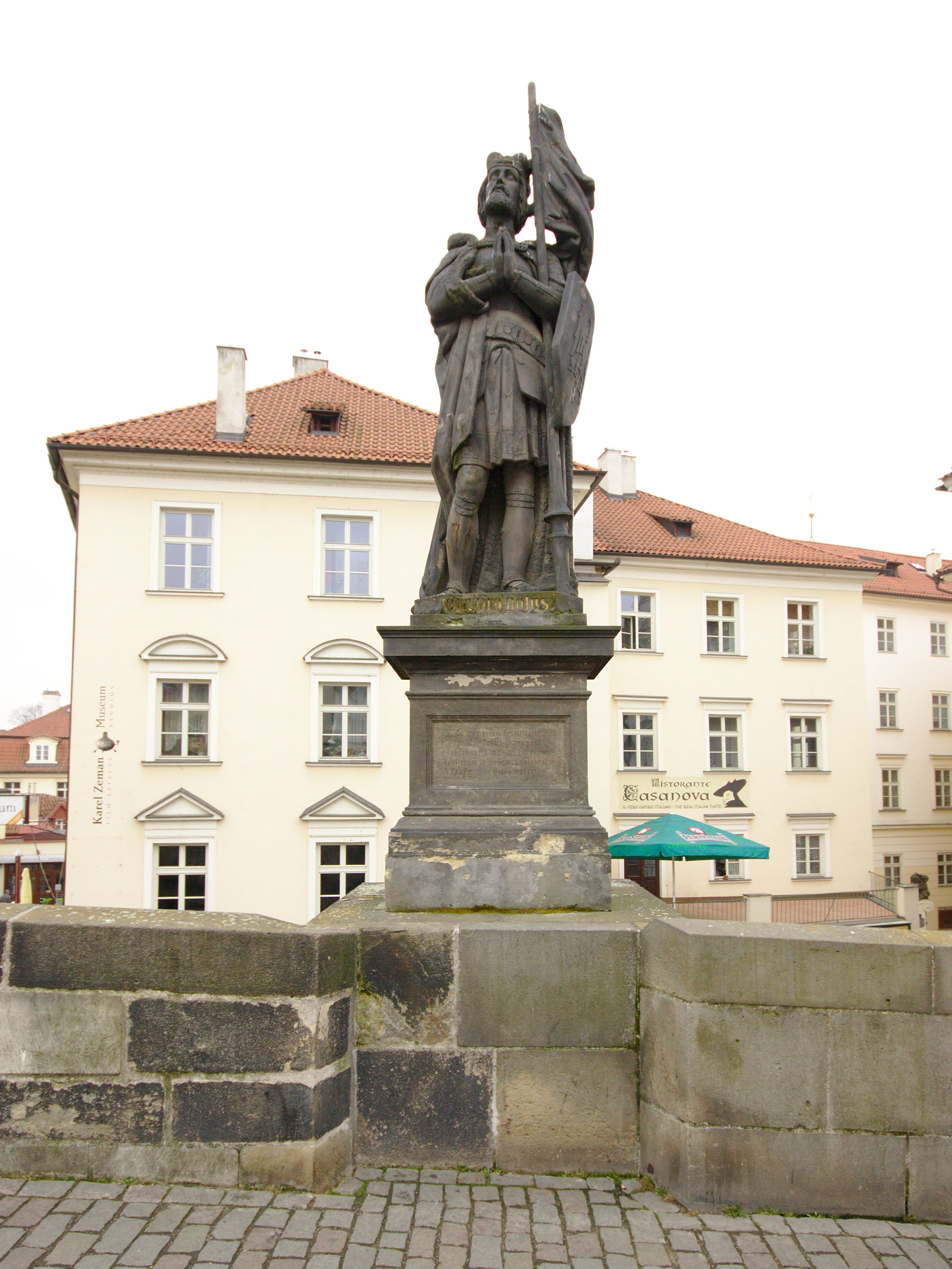 Statue of Saint Wenceslaus on Charles Bridge